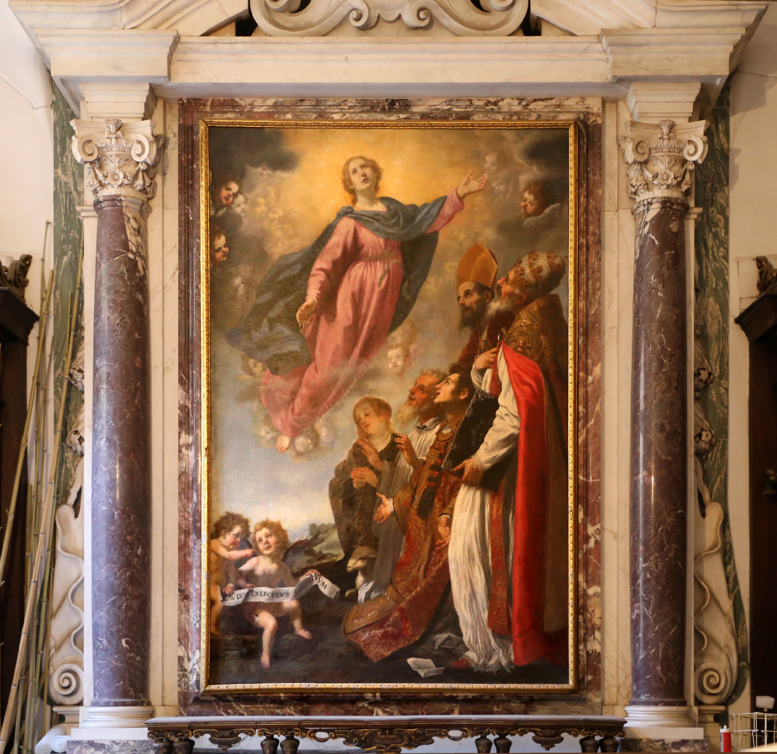 Santissima Annunziata (Florence) - Madonna Chapel - Vestry